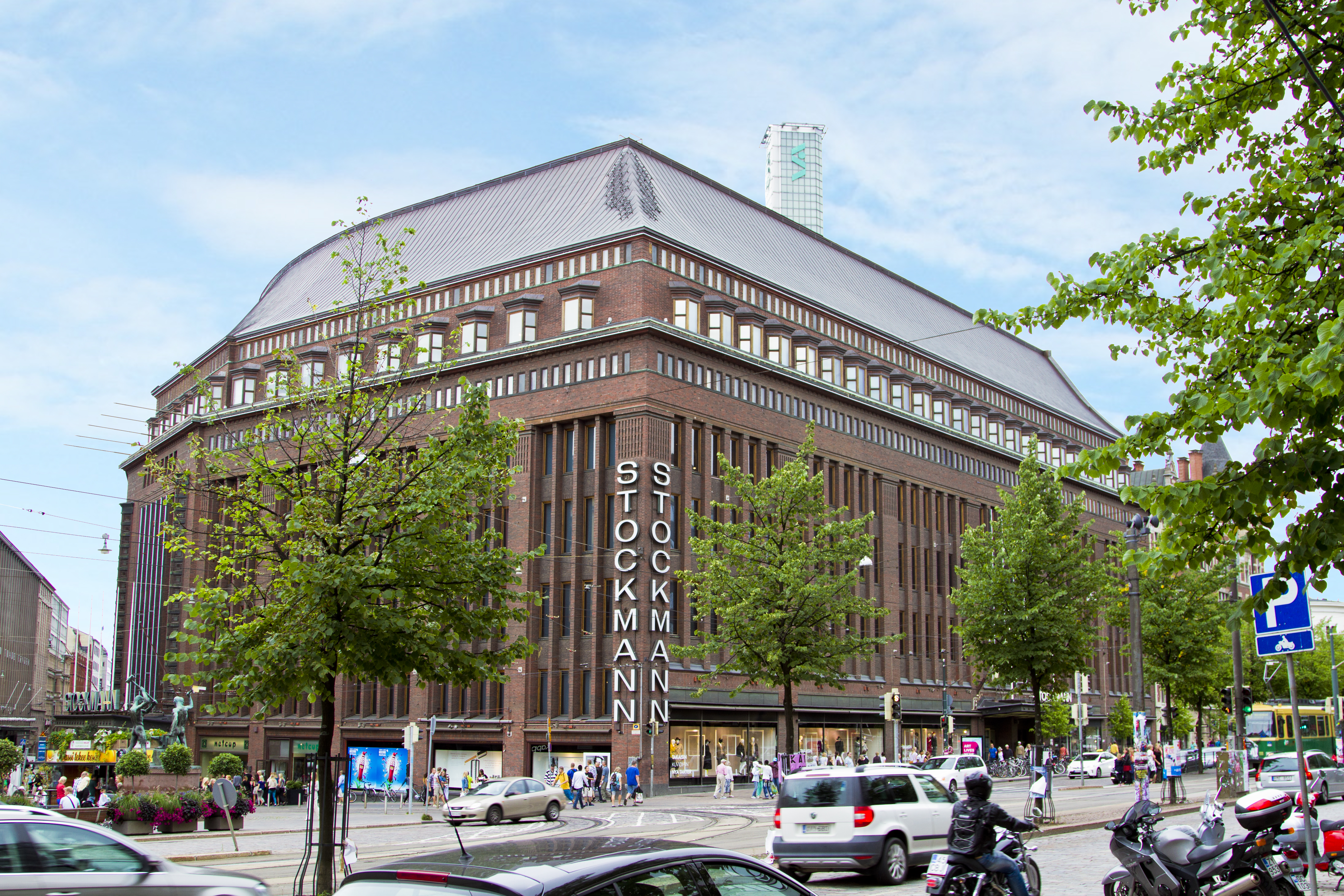 Department store Stockmann Helsinki City from Mannerheimintie side in the summer of 2013.